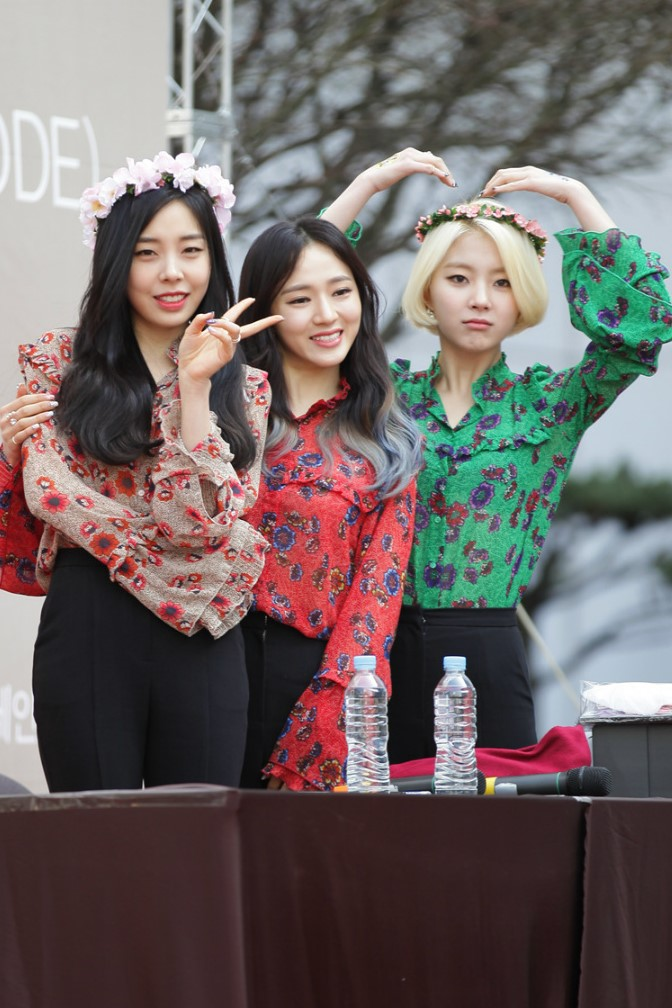 Ladies' Code at a fansign in Shinsegae, March 19, 2016.